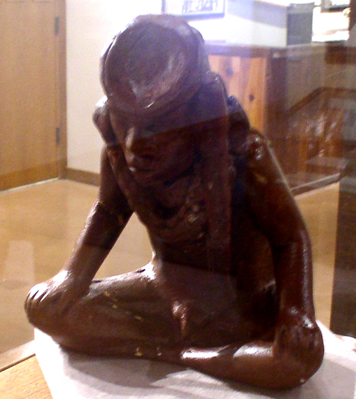 A photo of the "Big Boy" statue from Spiro, Oklahoma, depicting the mythic hero "Red Horn".